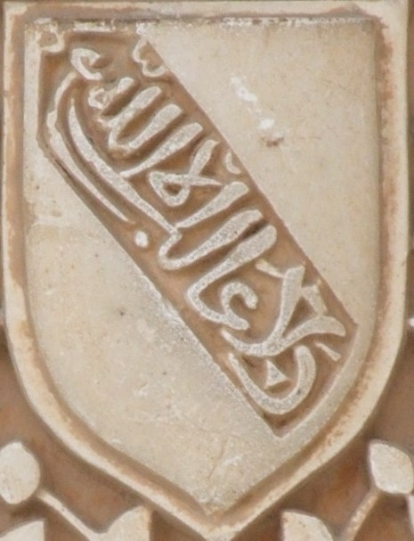 This picture shows coat of arms of Nasrid.